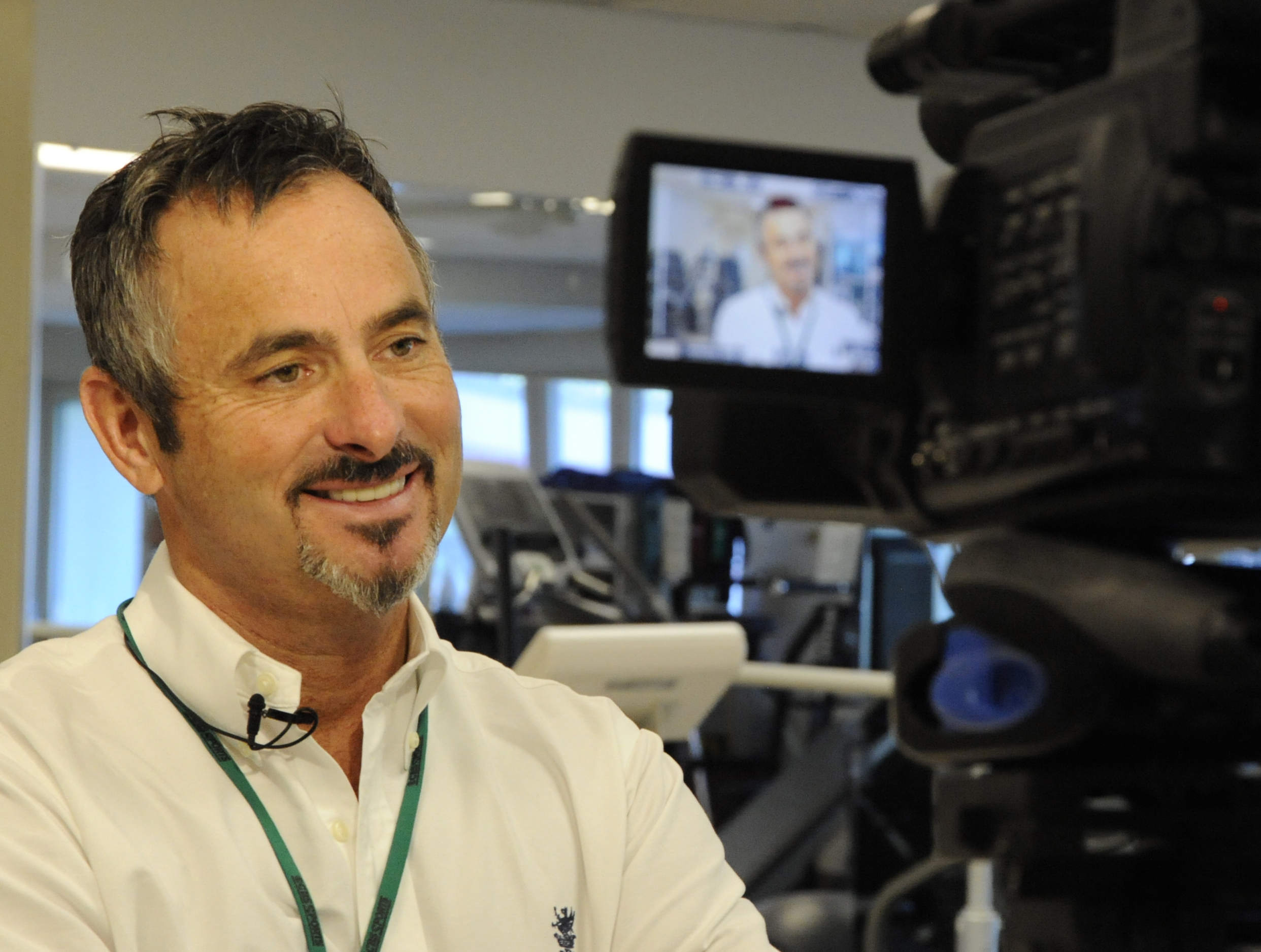 David Feherty participates in a video session while visiting injured troops at the Veterans Administration Medical Center in Augusta, Ga., April 8, 2009.